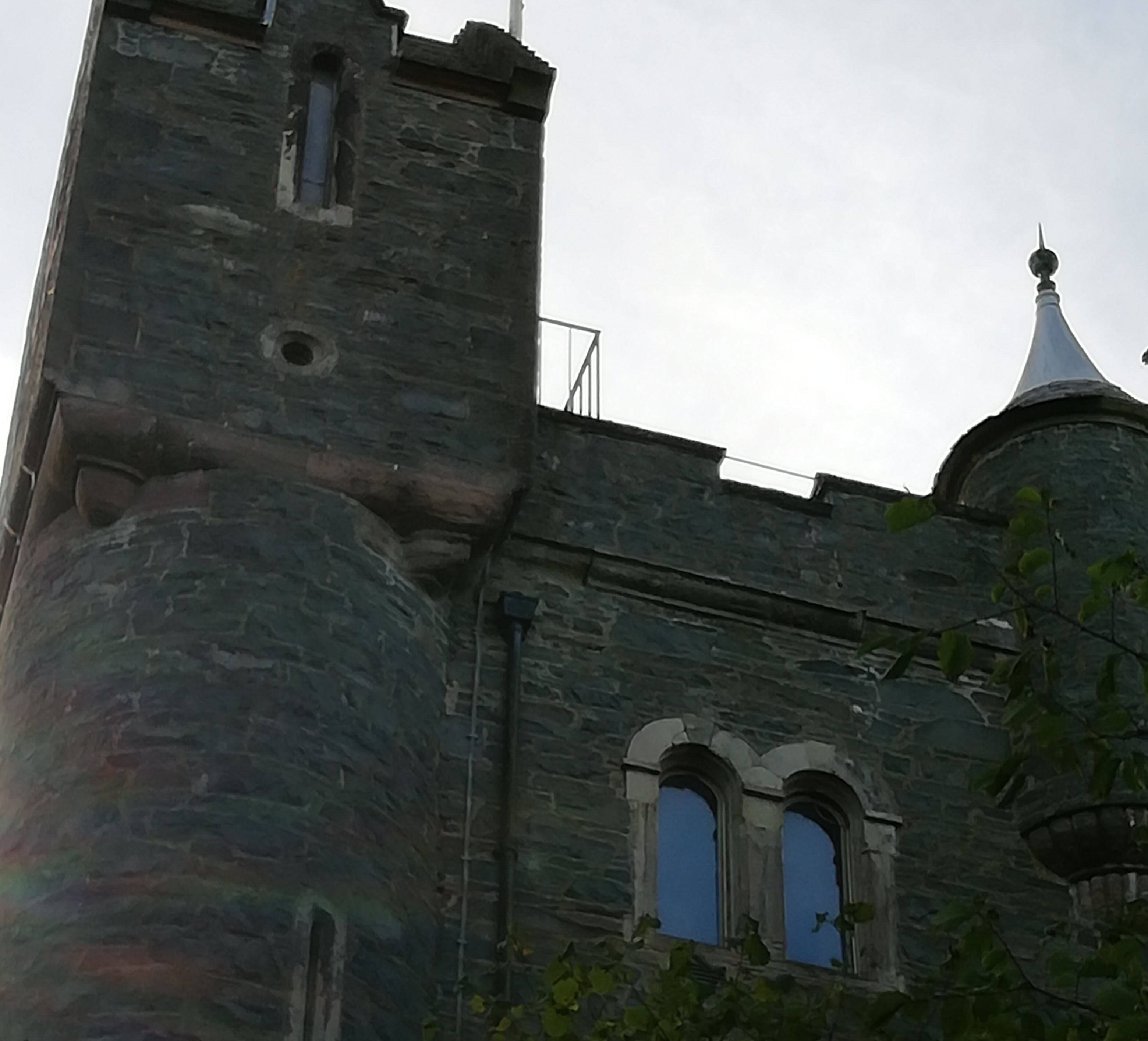 The photo shows the top of the northern facade of Helen's Tower in County Down.